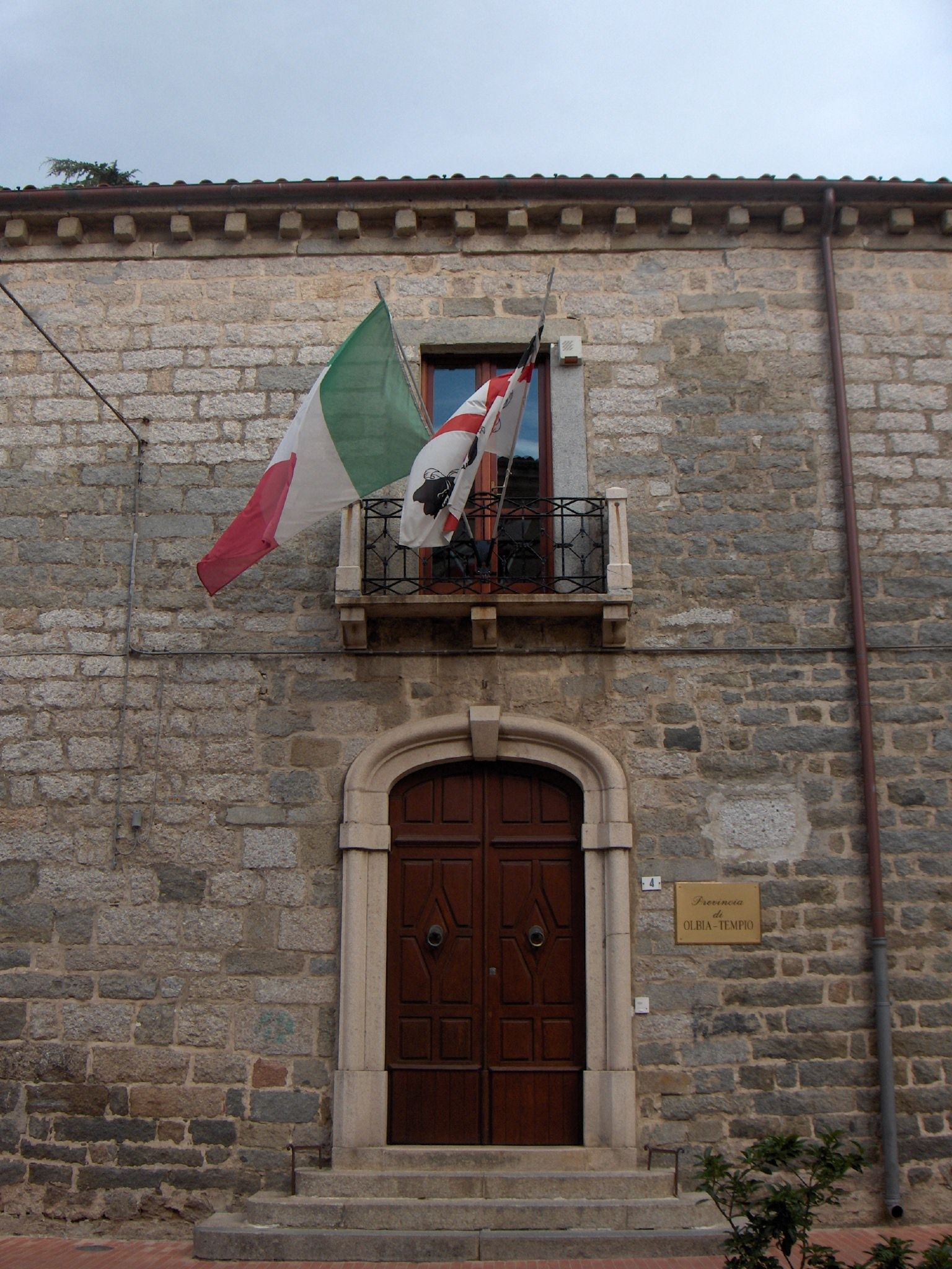 Old offices of the Province of Olbia-Tempio in Tempio Pausania (Sardinia, Italy). Photo taken by User:Dch in year 2006. Now the offices are in Palazzo Pes Villamarina.